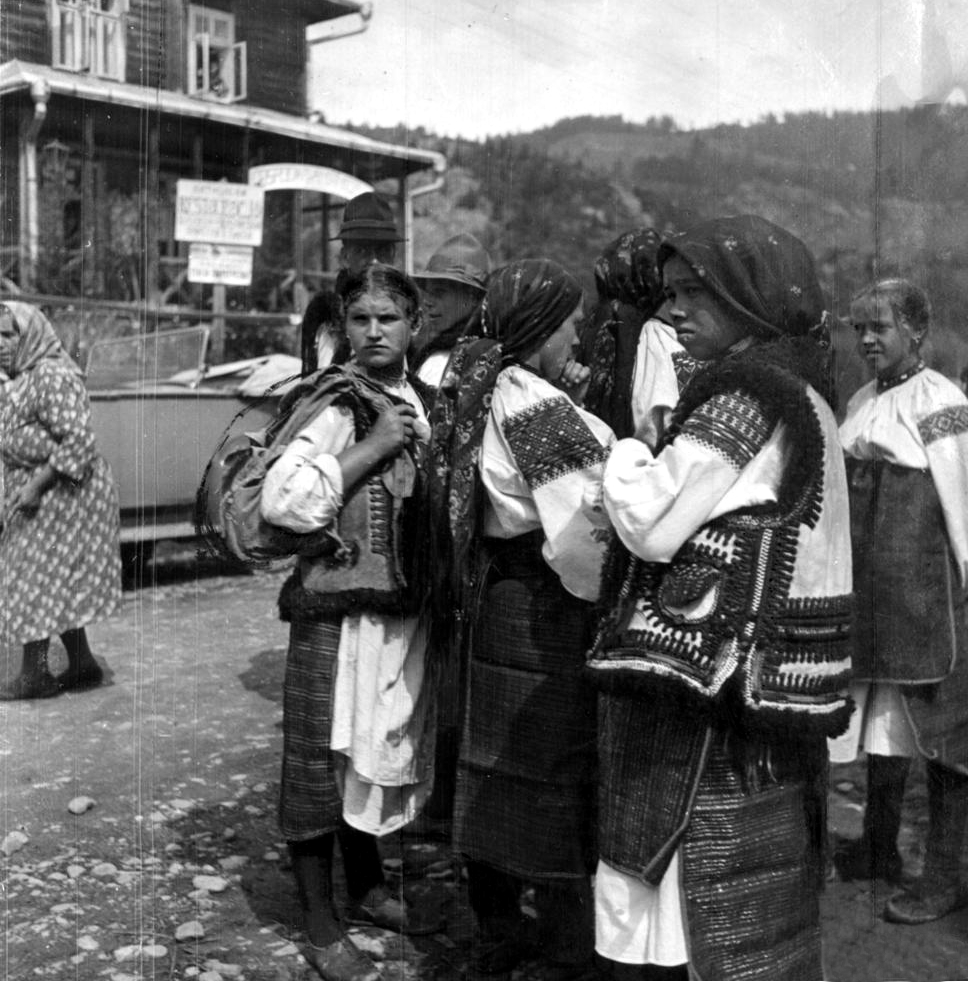 Hutsuls (Ukrainian highlanders) in Verkhovyna, southern part of Ivano-Frankivsk oblast (province), western Ukraine. old prewar photo.